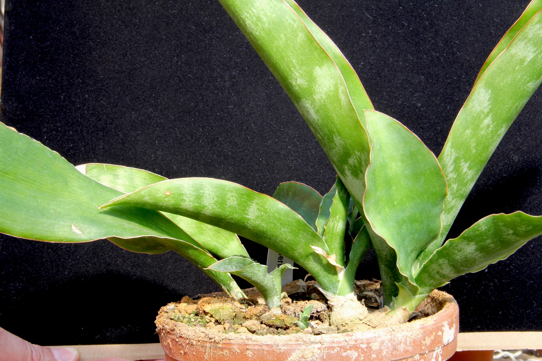 Sansevieria liberica